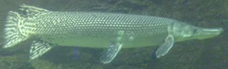 this fish is a Atractosteus spatula, in veracruz's acuariom.